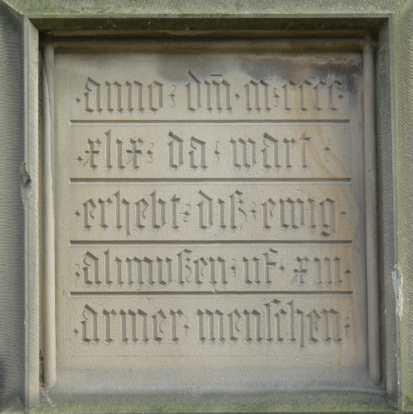 Table of the almsgiving near the north-tower of the Church Kilianskirche of Heilbronn - Germany, 2007, by J. Köhler